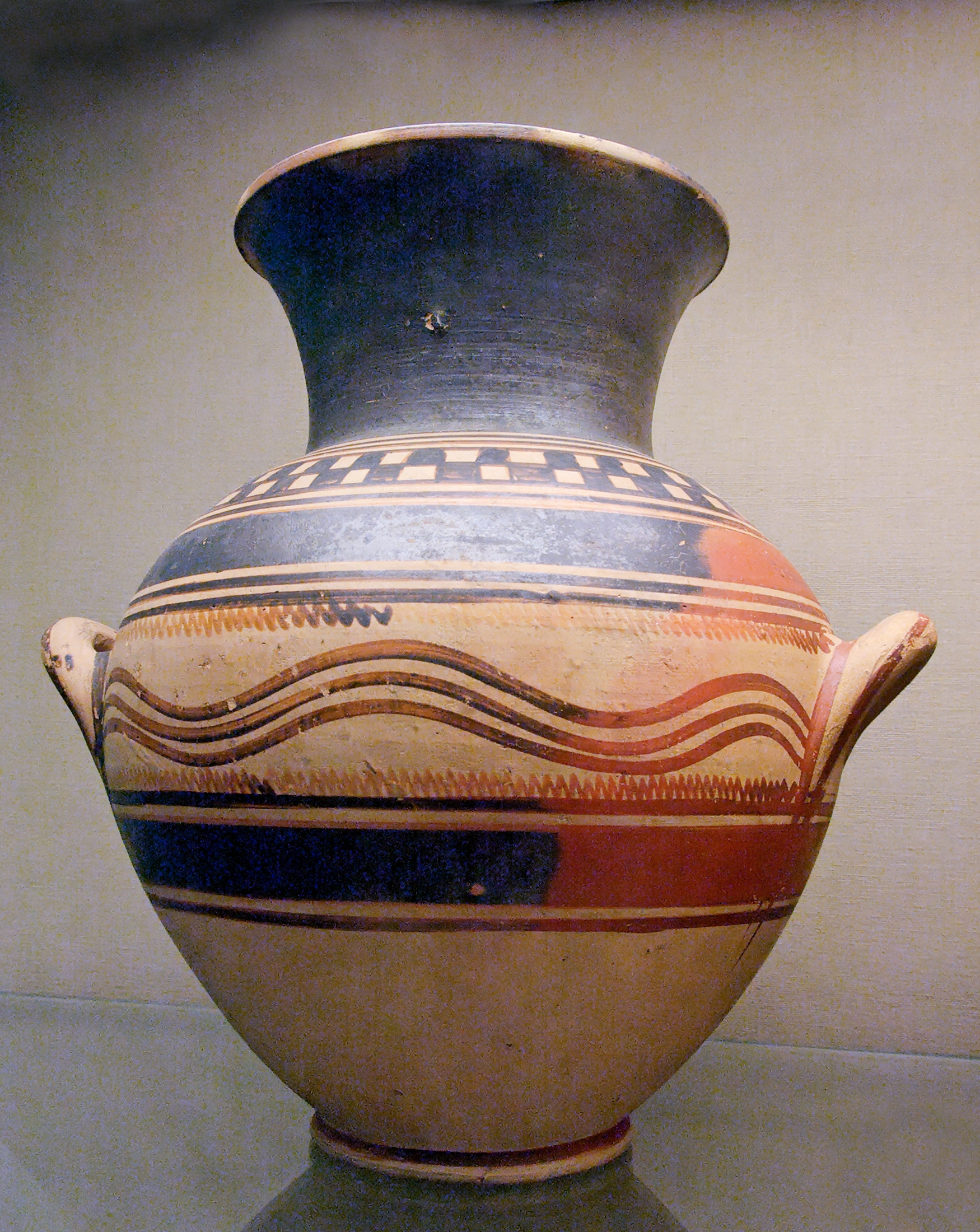 Late protogeometric belly-handled amphora with chequer-board design on the shoulder and parallel wavy lines in a panel at the handle zone. Made in Athens, from Athens?